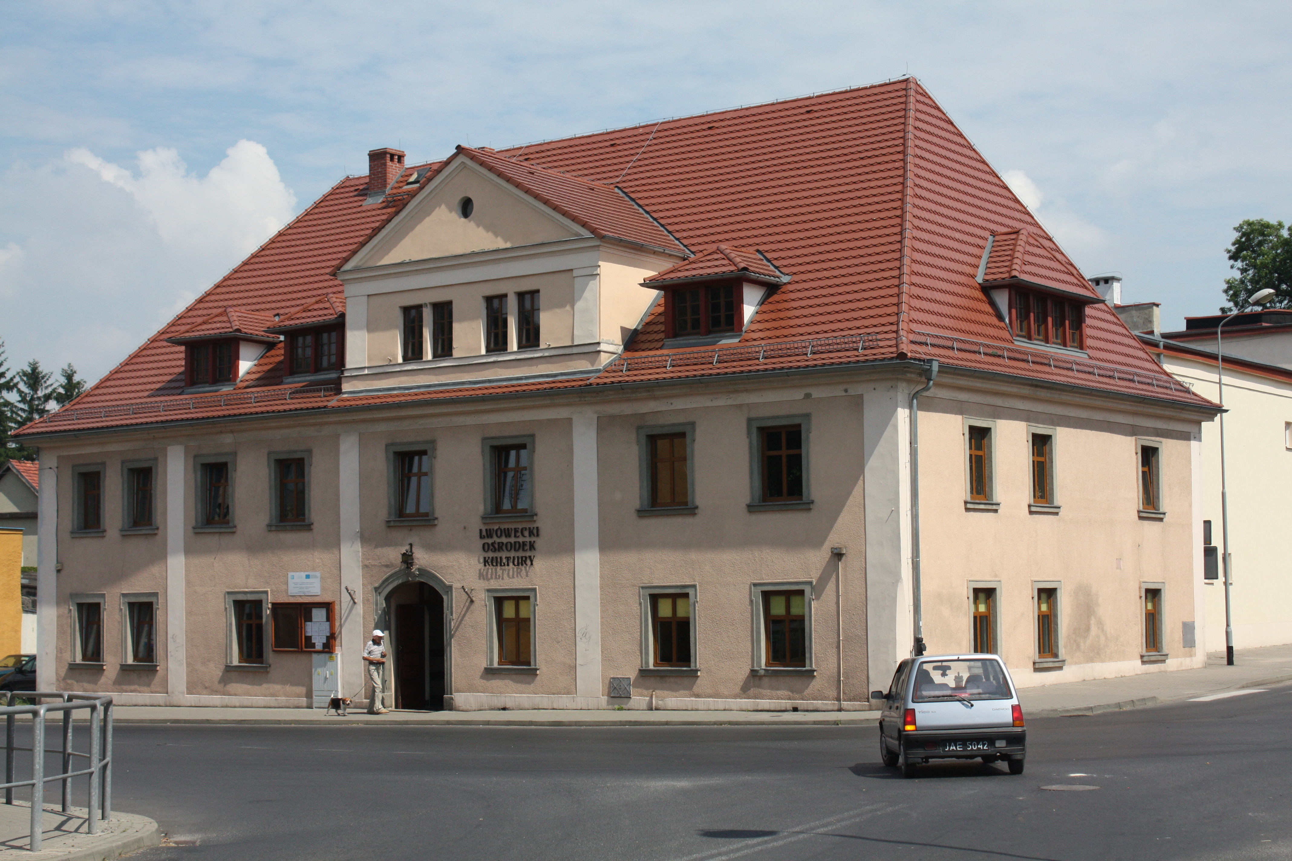 This photo of Lower Silesian Voivodeship was taken during Wikiexpedition 2013 set up by Wikimedia Polska Association. You can see all photographs in category Wikiekspedycja 2013. English | Polski | +/−